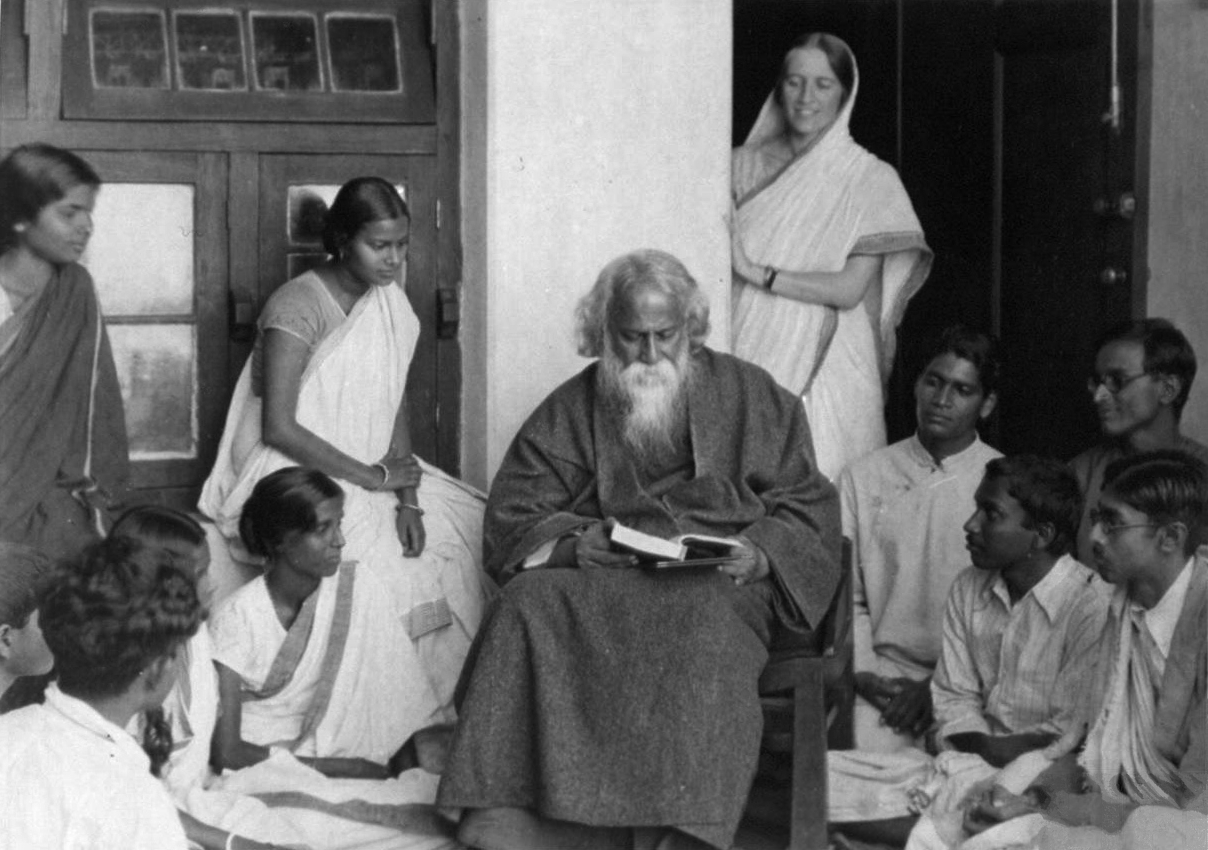 Rabindranath Tagore in 1925.